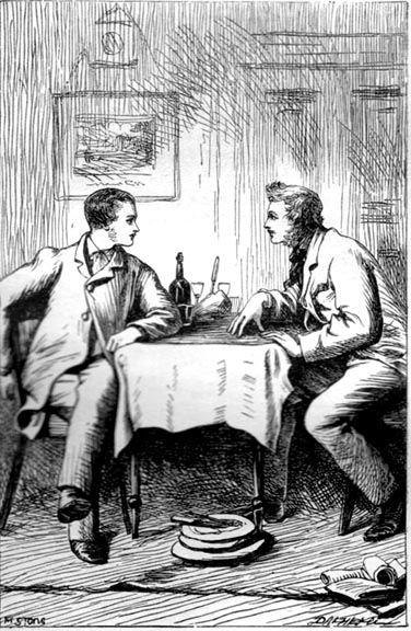 Herbert lectures Pip on Capital, by Marcus Stone